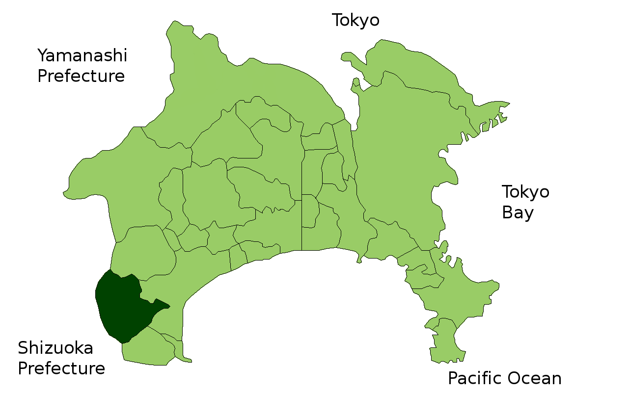 Location Map of Hakone in Kanagawa Prefecture, Japan